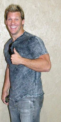 A picture I took of Chris Jericho during his recent book tour in Cleveland Ohio.